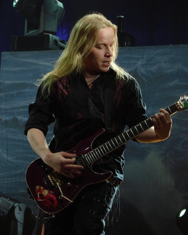 The Nightwish guitarist Emppu Vuorinen